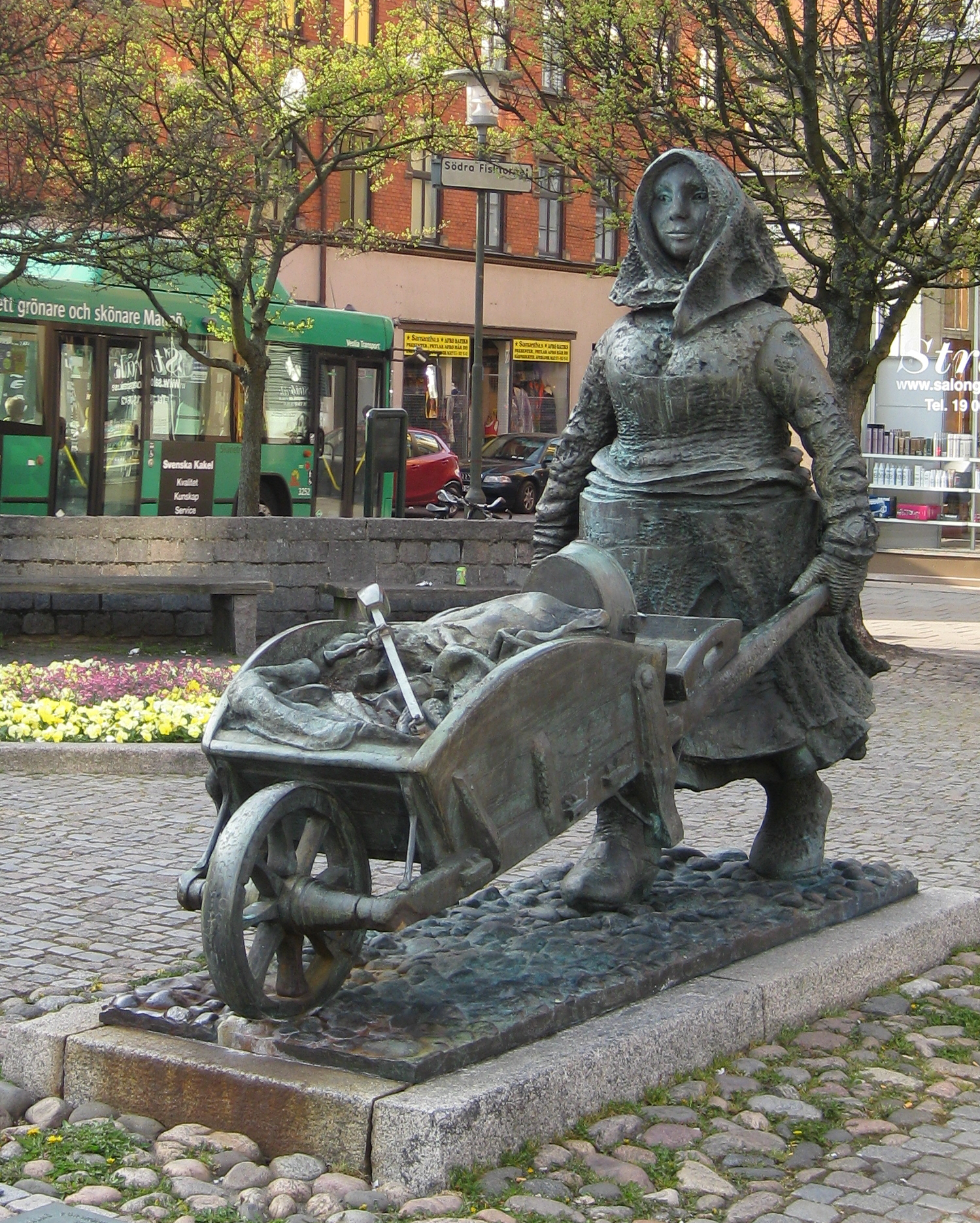 Sculpture at Södra Fisktorget ( Southern fish market ) in Malmö, Sweden